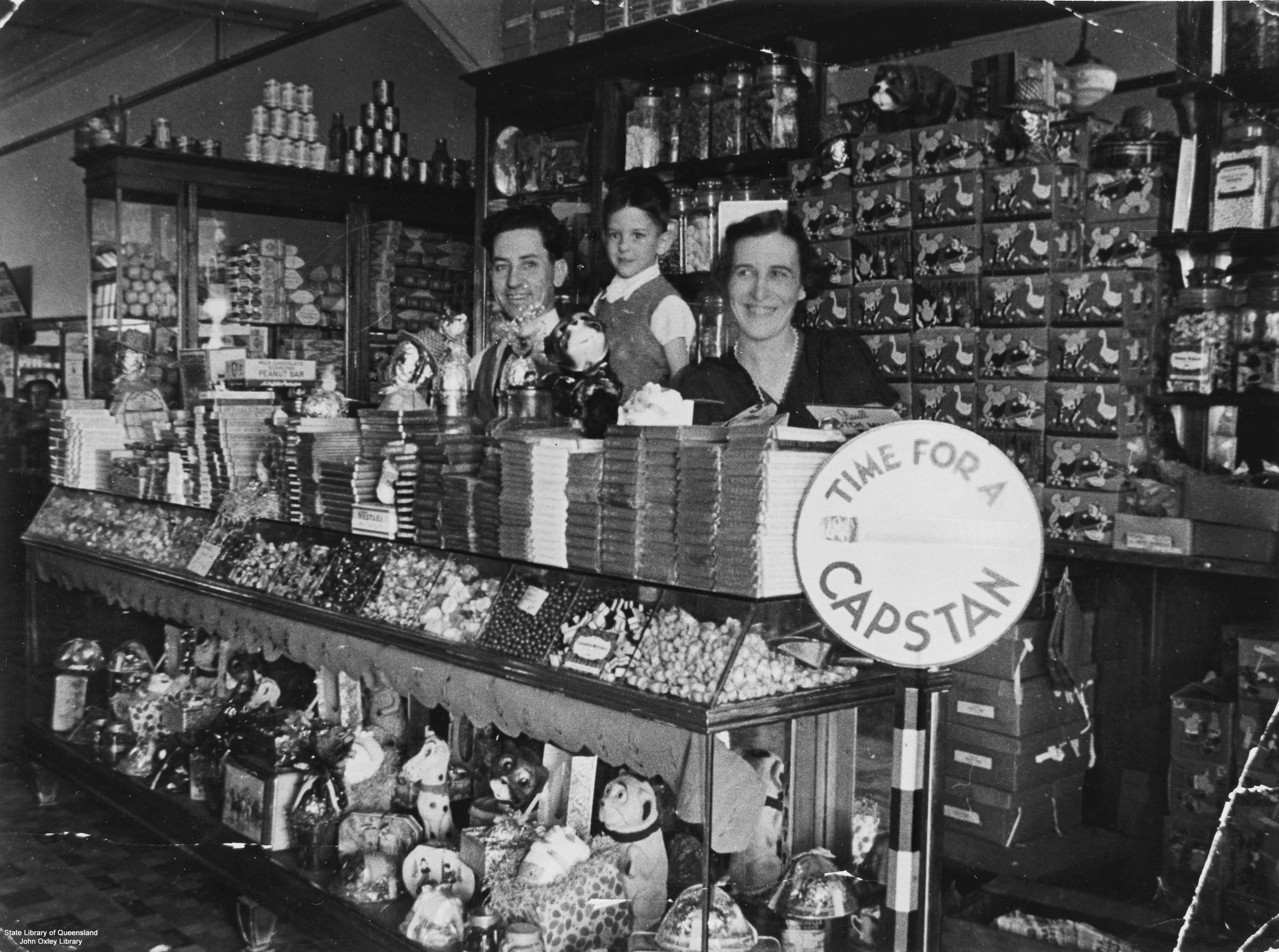 Inside the Paragon Cafe at Dalby, Queensland, ca. 1936. Man, woman and young boy behind the counter at the Paragon Cafe, Dalby, around 1936. Stacks of chocolate bars line the top of the counter above an assortment of lollies in the glass cabinet. Ornaments and toys are on the lower shelf of the counter. Rows of tinned food, jars and cardboard boxes line the shelves behind the family. A large sign to the right of the counter advertises Capstan cigarettes.